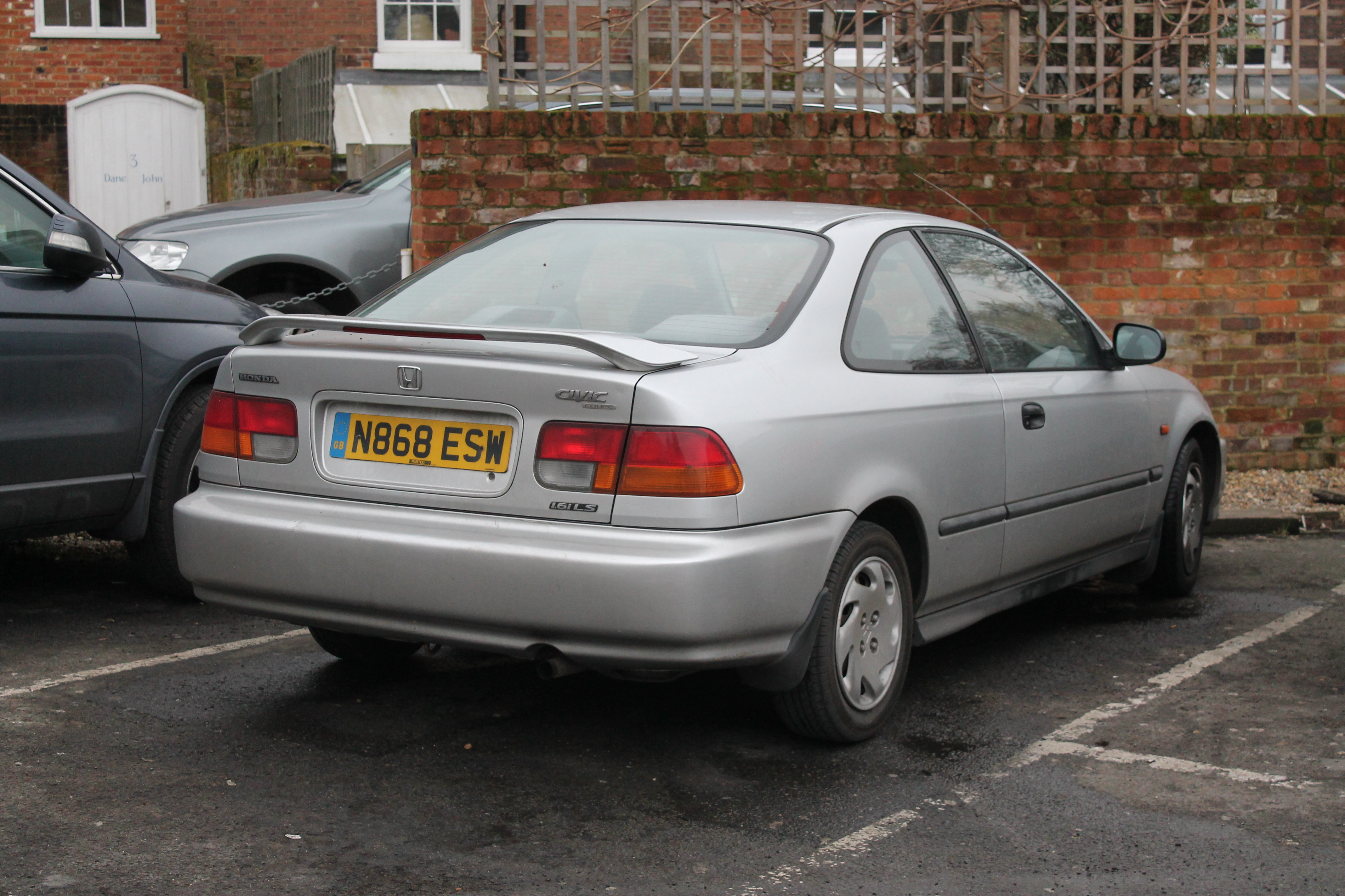 I really like the shape of these coupe Civics- far prefer them over normal Civics of the same generation. I wouldn't dream of owning one as an auto though. To me the whole point of a fun sporty car like this is being able to drive it as you wish, and not what some machine wants you to. I won't ever be swayed towards an automatic car myself, whatever car it's in. Registration number: N868 ESW ✔ Taxed Tax due: 01 March 2015 ✔ MOT Expires: 30 December 2015